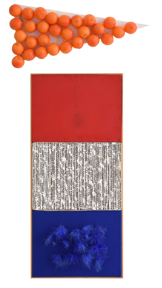 Triptych Armando, Peeters, Schoonhoven and Henderikse